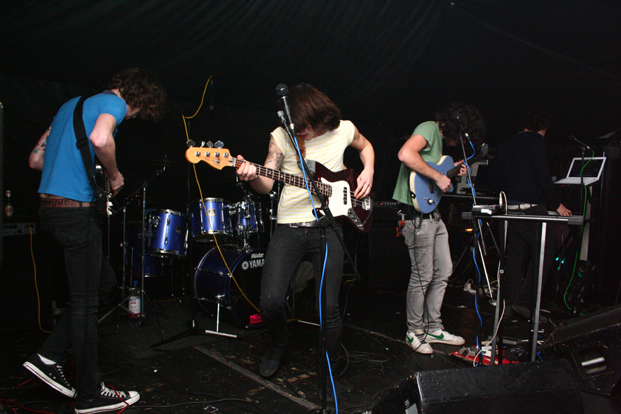 The JCQ (formerly The James Cleaver Quintet) performing in February 2007.